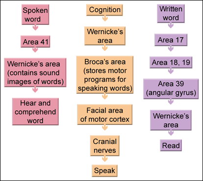 This is a picture with boxes representing the classical Wernicke-Geschwind model of language. It is made by me, Lova Falk, and it's free for everybody to use it as they want.